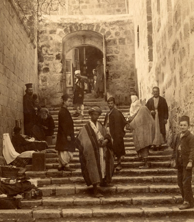 Photograph by Felix Bonfires, 1870-80 of a side entrance to the church of the Holy Sepulcher in Jerusalem. "During one of these visits we sat for a while on a bench by the wall of the Church not far from the entrance to the Holy Sepulcher. It was interesting to note the diversity of costumes and to watch the difference in the behavior of the tourists and pilgrims of the various nationalities. Palestine appeared to us to be a land where history and tradition were so curiously mixed that it was difficult to know where history ended and tradition began" A TRIP TO THE ORIENT, Robert Jacob - 1907.